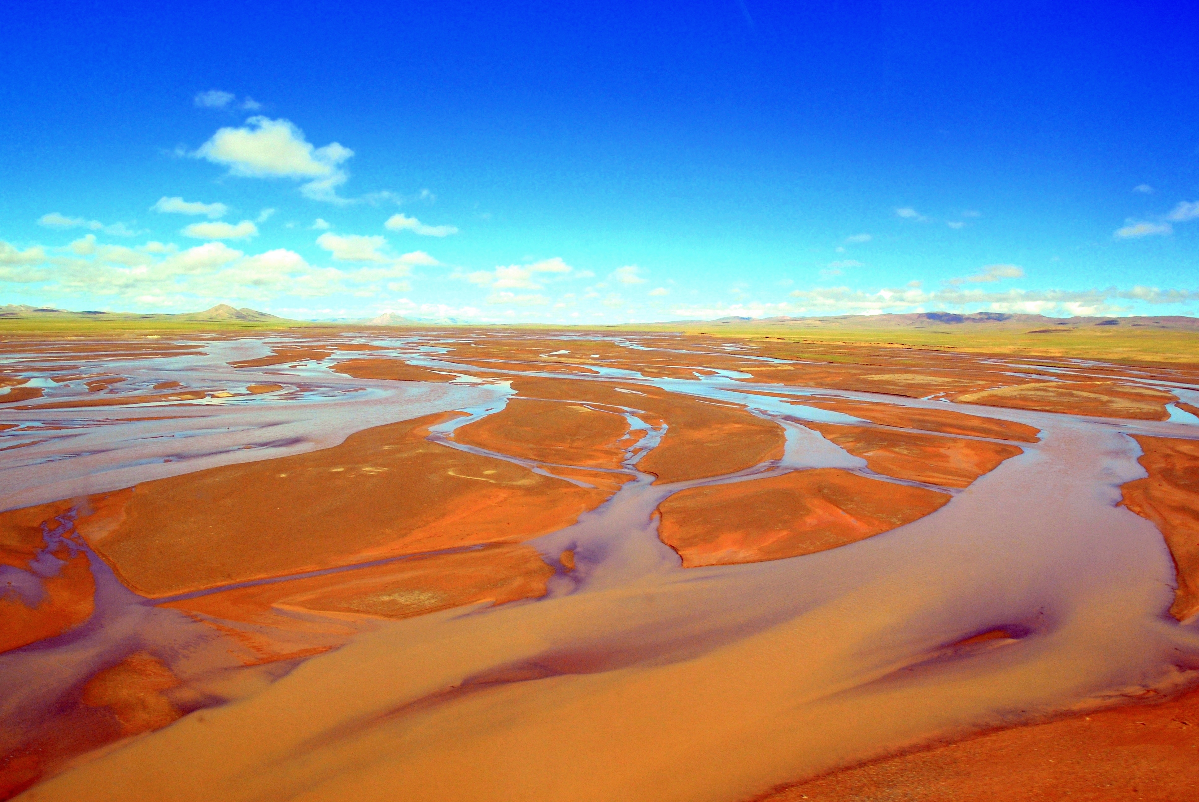 The Yangtze river as seen from the Beijing-Lhasa train, on the so-called "First Bridge".